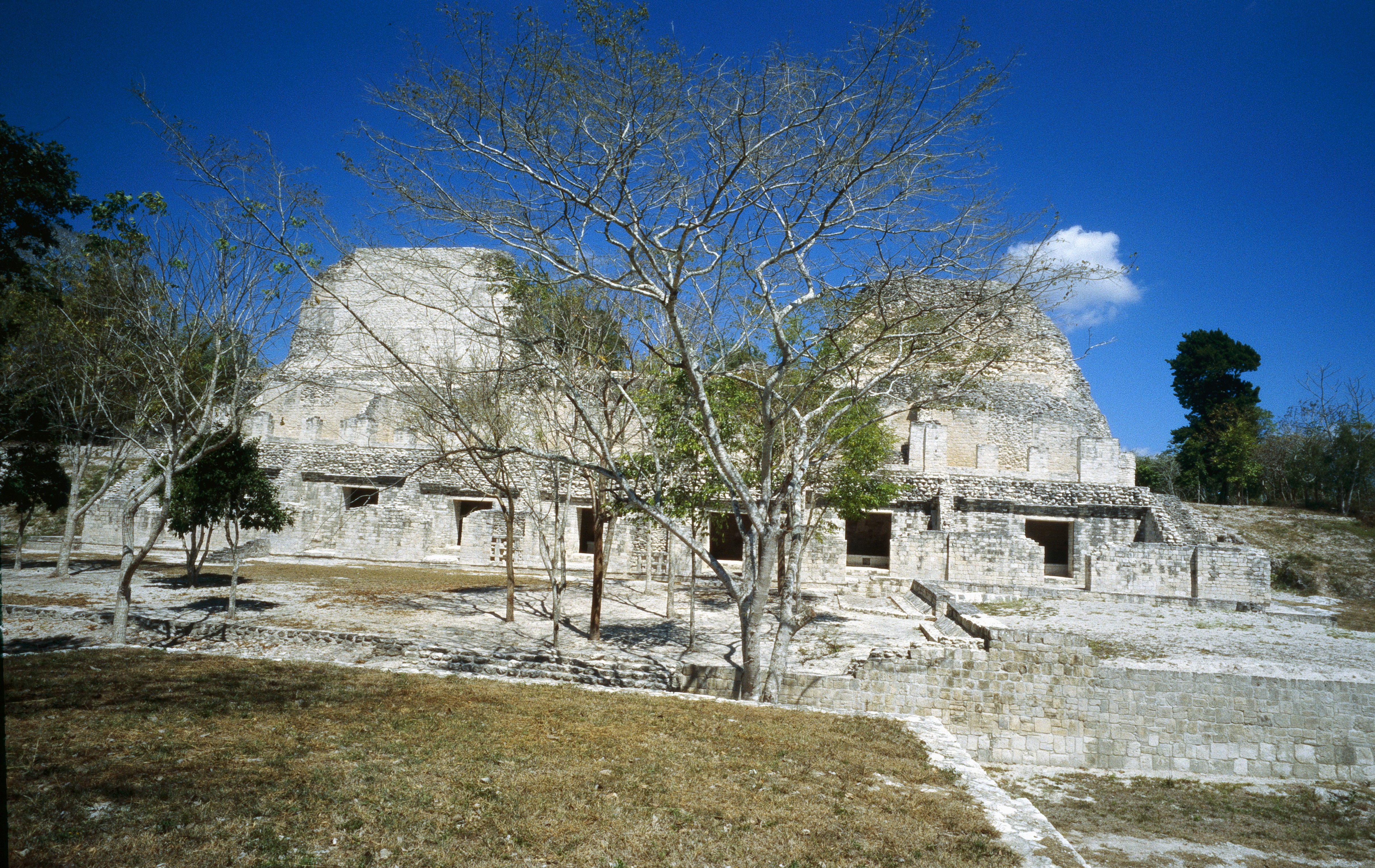 Becan, Campeche, Mexico: structure I, south side